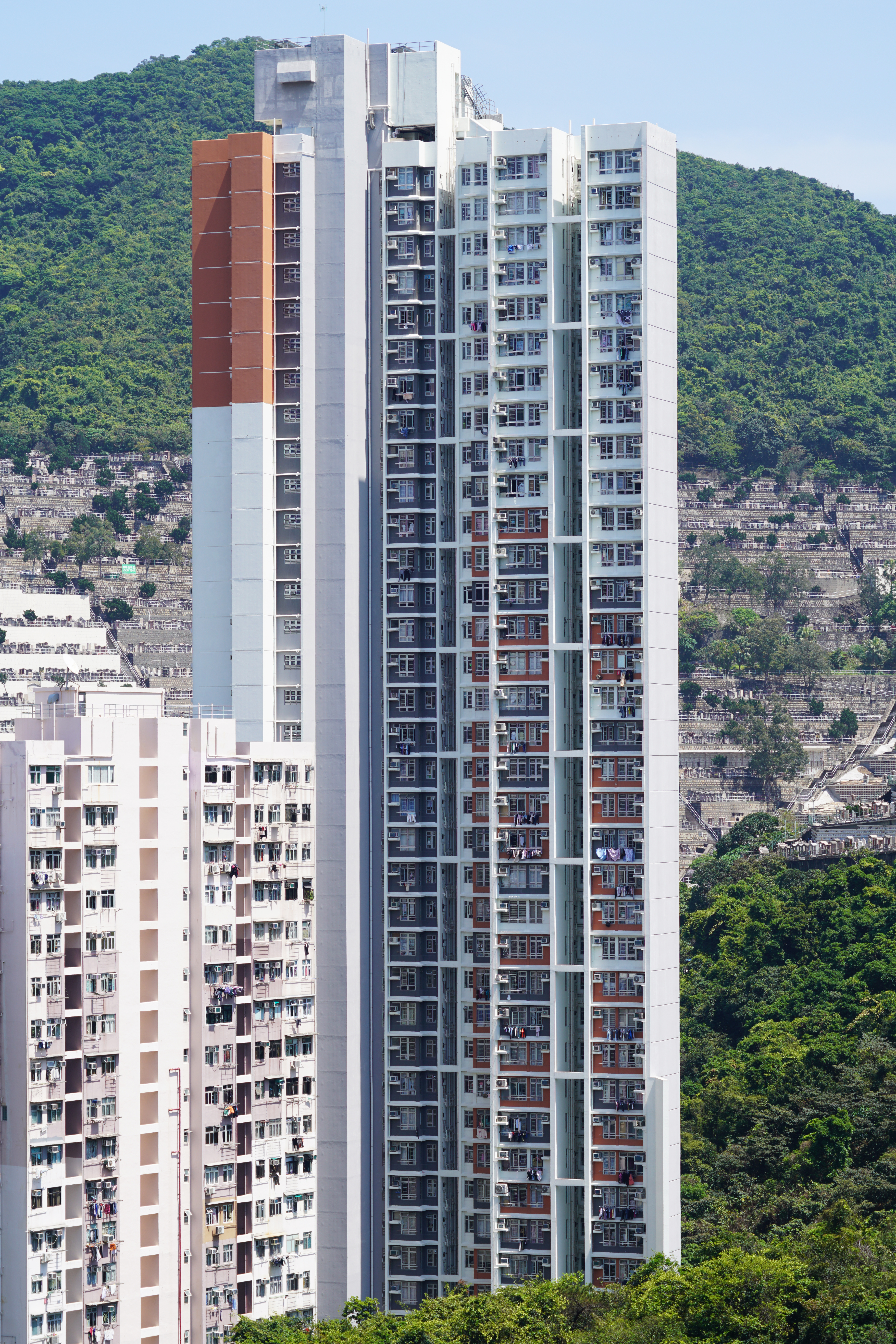 Lin Tsui Estate, Hong Kong.